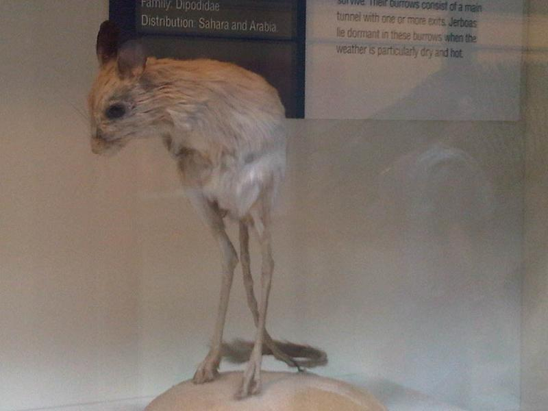 Taxidermied Lesser Egyptian Jerboa (Jaculus jaculus) at the Natural History Museum in London, England.